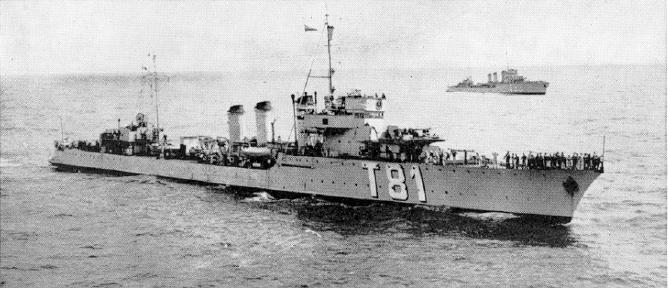 The Simoun, ONI203 booklet for identification of ships of the French Navy, published by the Division of Naval Inteligence of the Navy Department of the United States (9 November 1942).